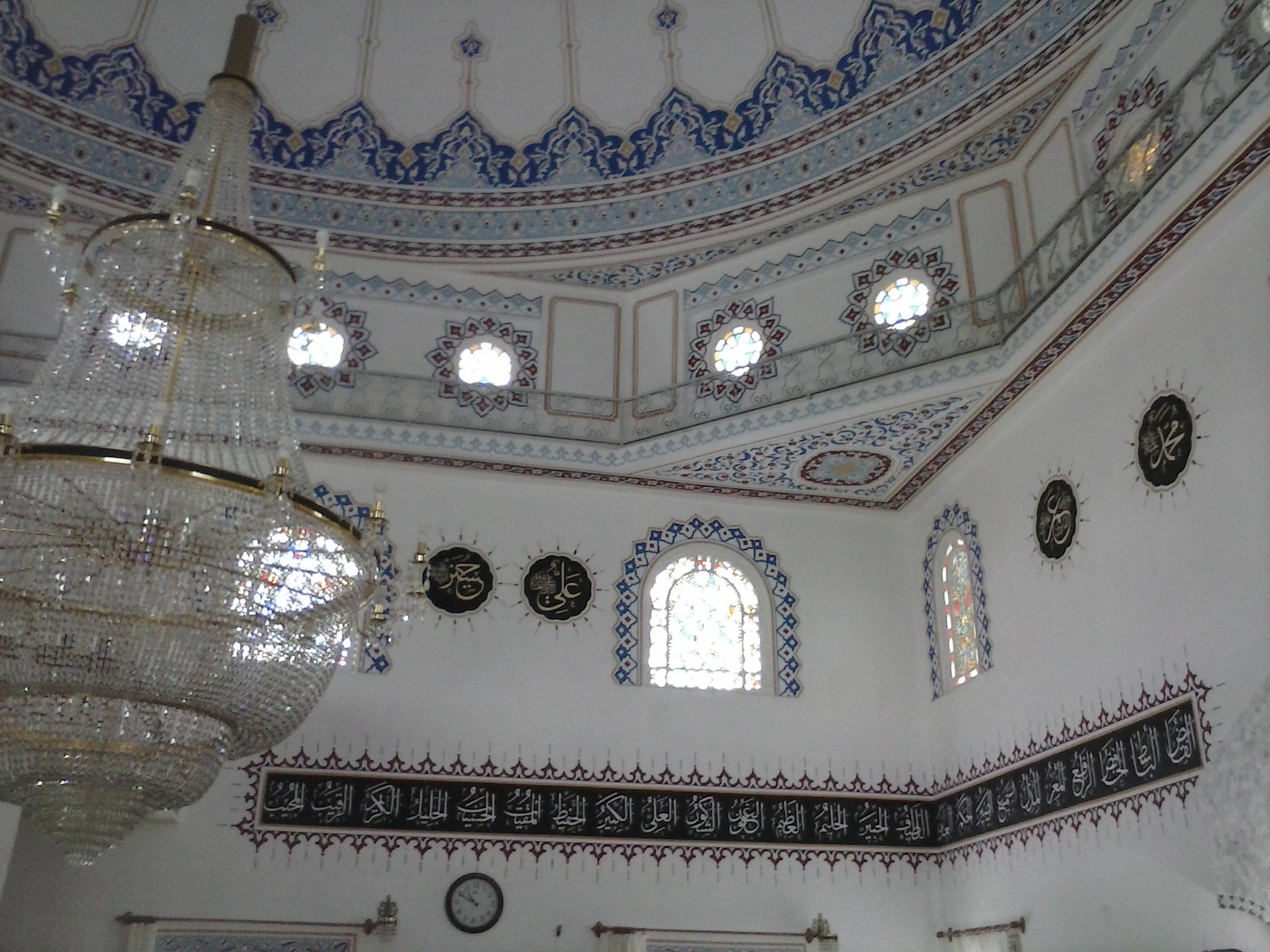 Inside of an mosque in Alanya, Turkey